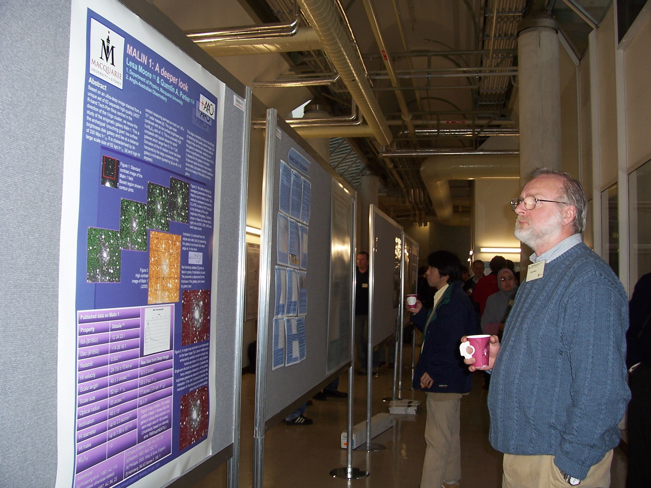 David Malin looking at a poster about Malin 1, the first galaxy to be discovered by him.